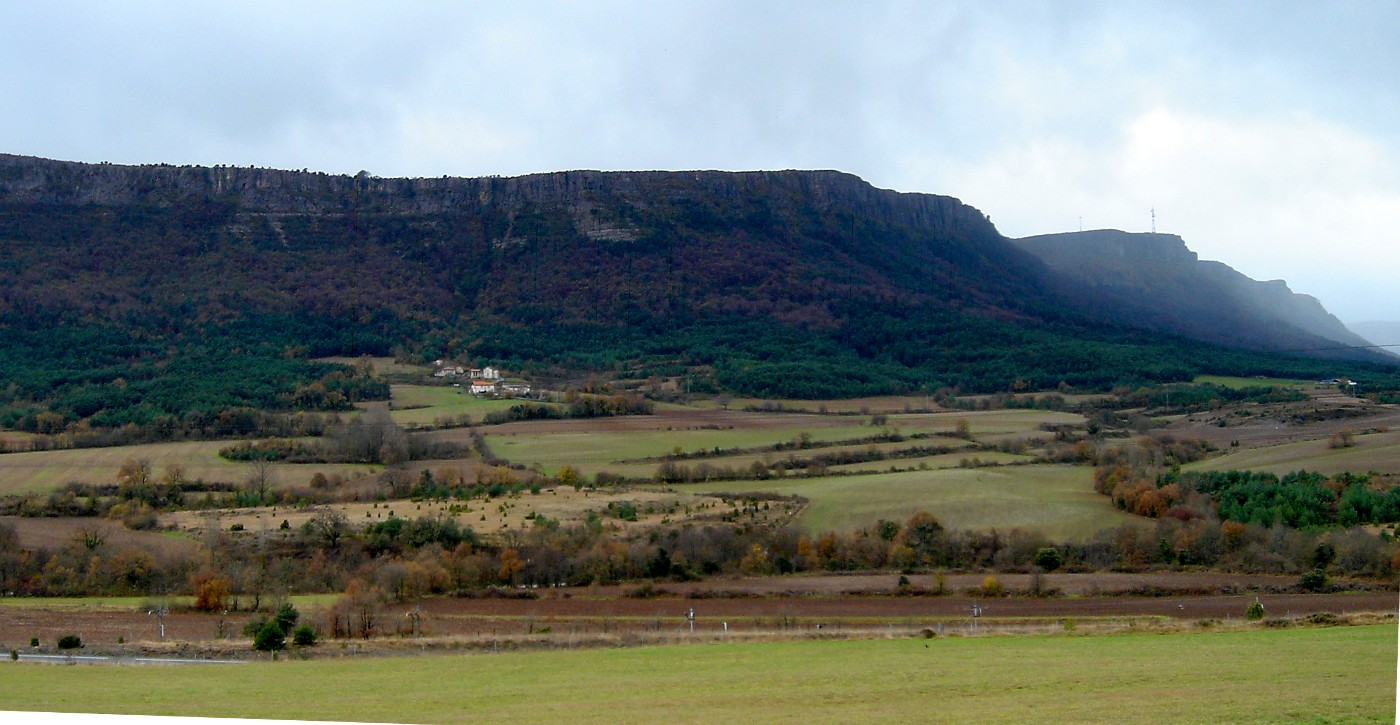 Uribarri Kuartango (Araba, Basque Country, Spain)